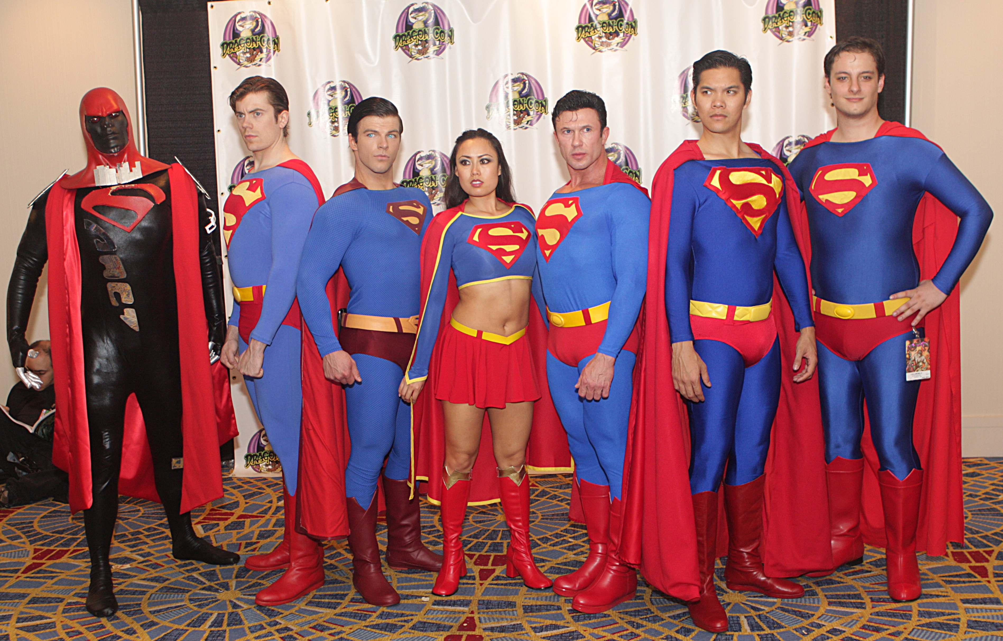 Group of Superman cosplayers at Dragon*Con 2009, as well as cosplay of the Superman characters Eradicator (far left) and Supergirl (centre). Camera: Canon EOS 40D License on Flickr (2011-03-12): CC-BY-2.0 Flickr tags: Dragon, Con, 2009, D*Con, Costume, hall, Superman